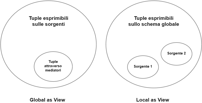 GAV and LAV